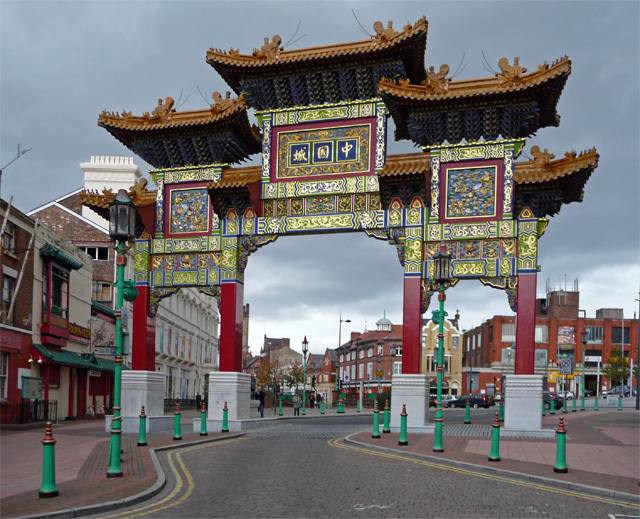 Chinese Arch The entrance to Liverpool's Chinatown.